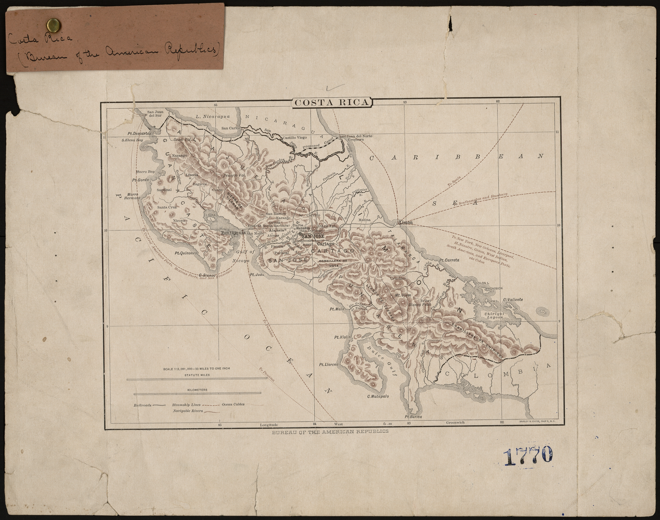 This map of Costa Rica was published by the International Bureau of the American Republics (instituted in 1910 as the Pan American Union), an agency established in 1890 in Washington D.C., by resolution of the International Conference of American States. The bureau published handbooks, maps, and a monthly bulletin for disseminating information relating to the promotion of trade among the countries of the Americas. The map shows the routes of steamship lines from the ports of Limon, Puntarenas, and San Juan del Sur (Nicaragua); undersea telegraph cables; railroads; and the proposed route of an isthmian canal across Nicaragua, later abandoned in favor of a route across Panama. The map was made before 1903, when Panama became an independent country, so it shows Costa Rica as still bordering on Colombia to its south. The map is held in the Columbus Memorial Library of the Organization of American States, successor organization of the International Bureau of the American Republics and the Pan American Union.